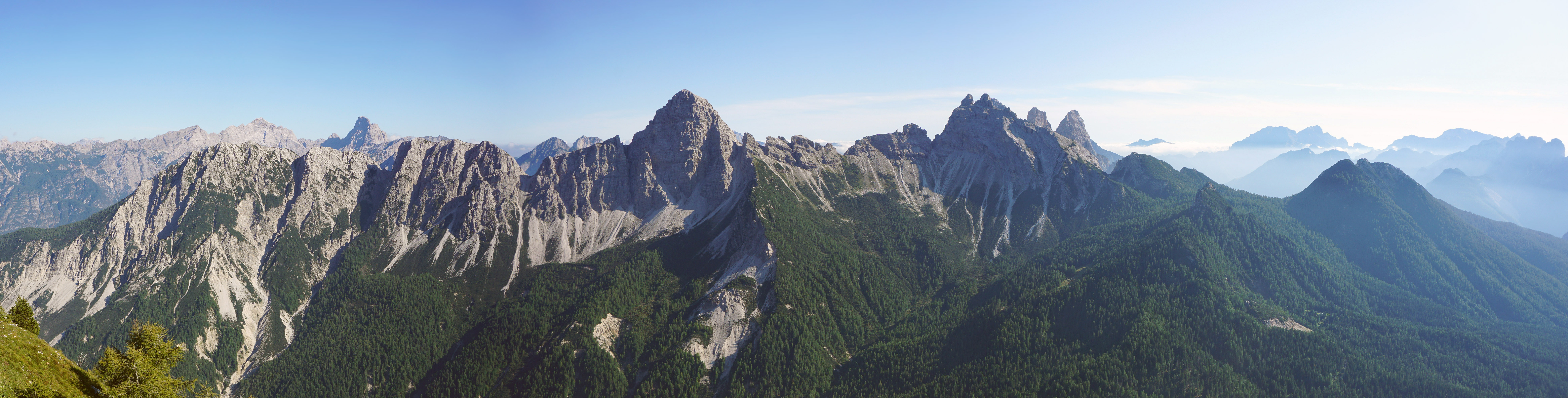 Panoramic view of Bosconero mountain range seen from Monte Rite.